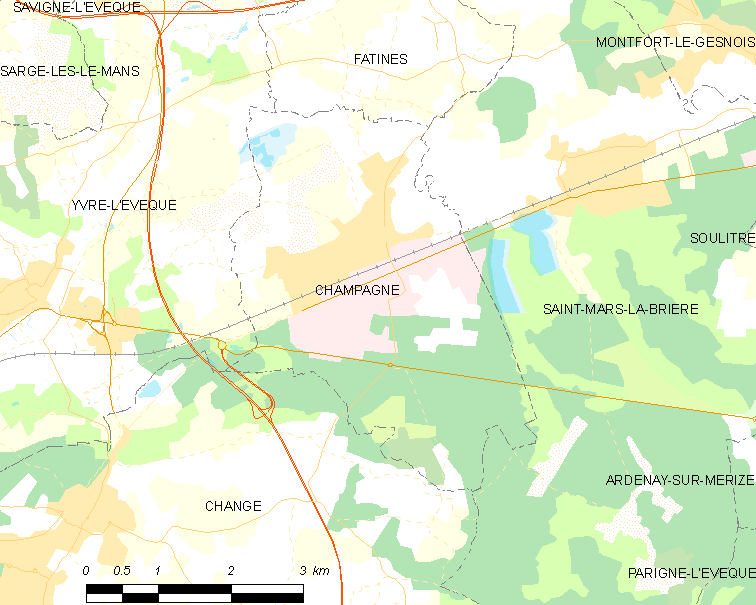 Map of French municipality